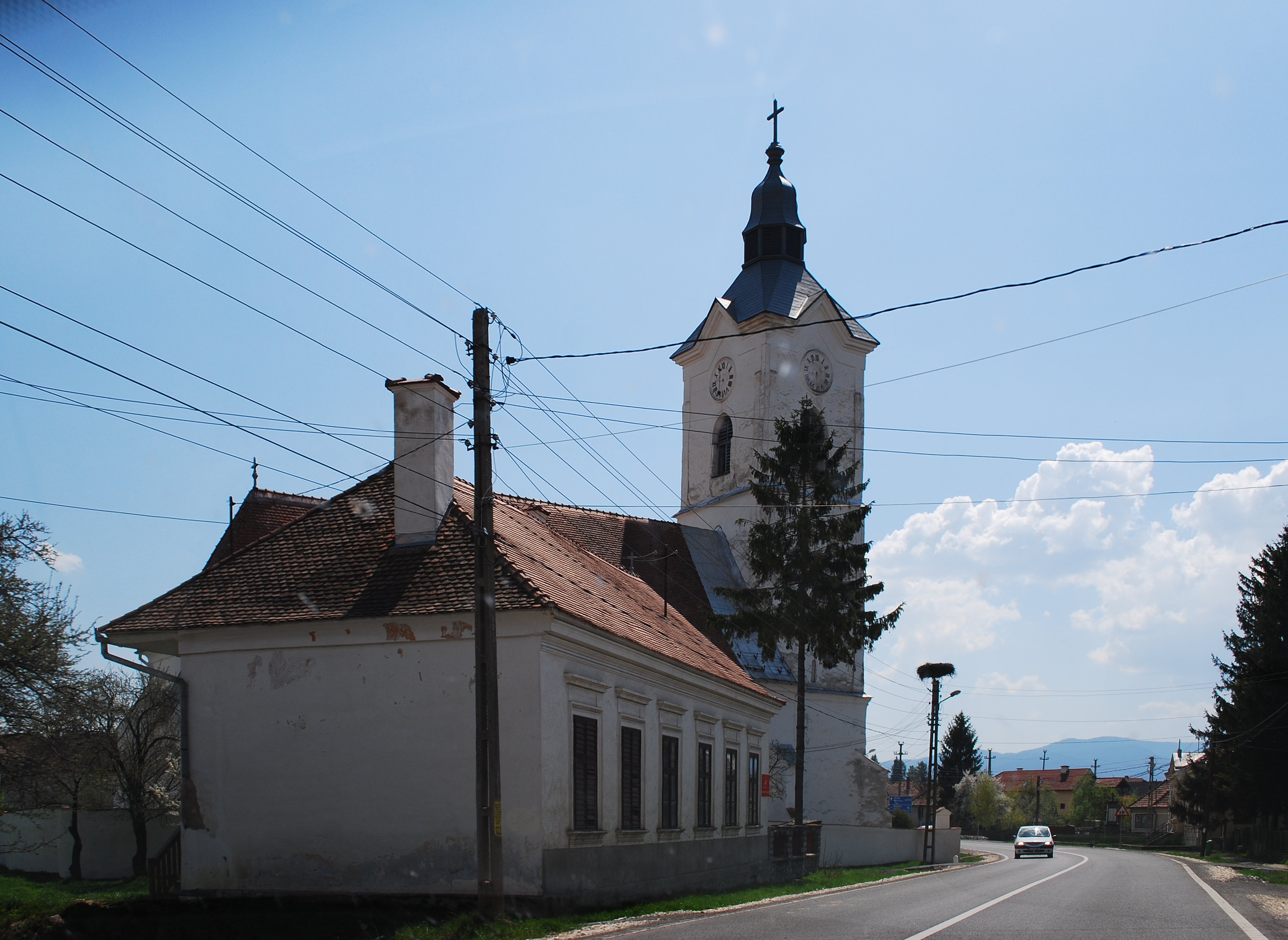 Roman-catholic church in Valea Strâmbă, Harghita County, Romania